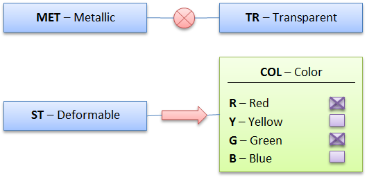 example of constraints used in product configurator